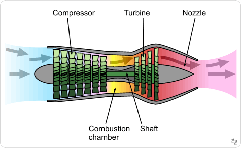 Schematic diagram of the operation of a axial flow turbojet engine. Drawn using XaraXtreme by Emoscopes 04:25, 14 December 2005 (UTC)